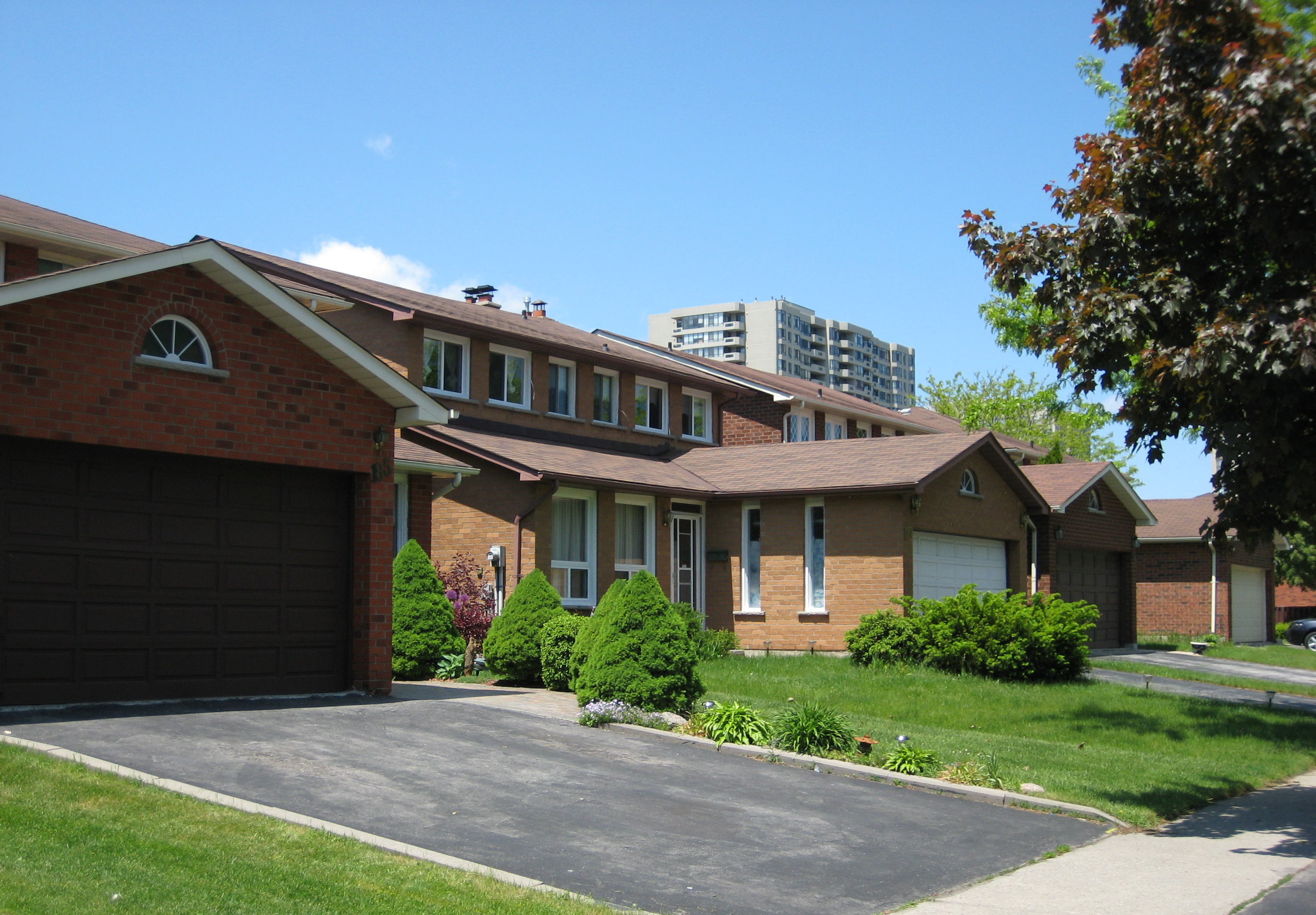 Houses in L'Amoreaux